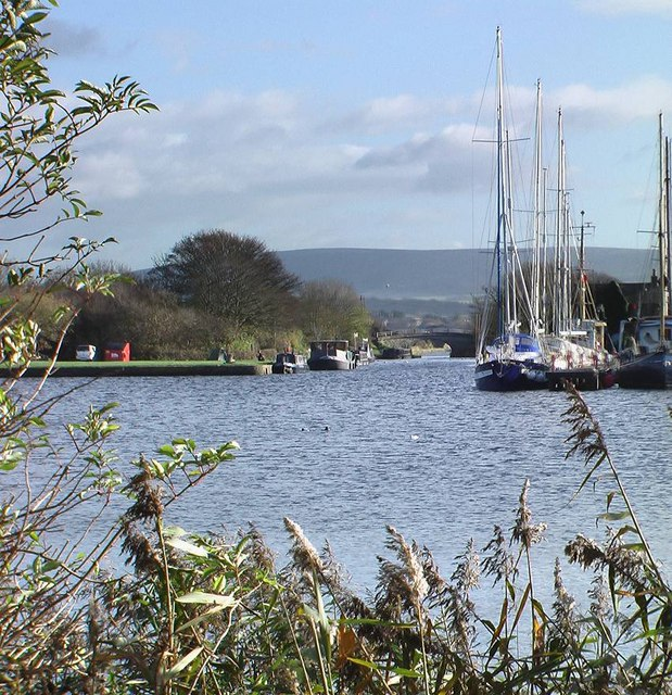 Glasson Dock Looking along the Lancaster Canal Branch from the Basin